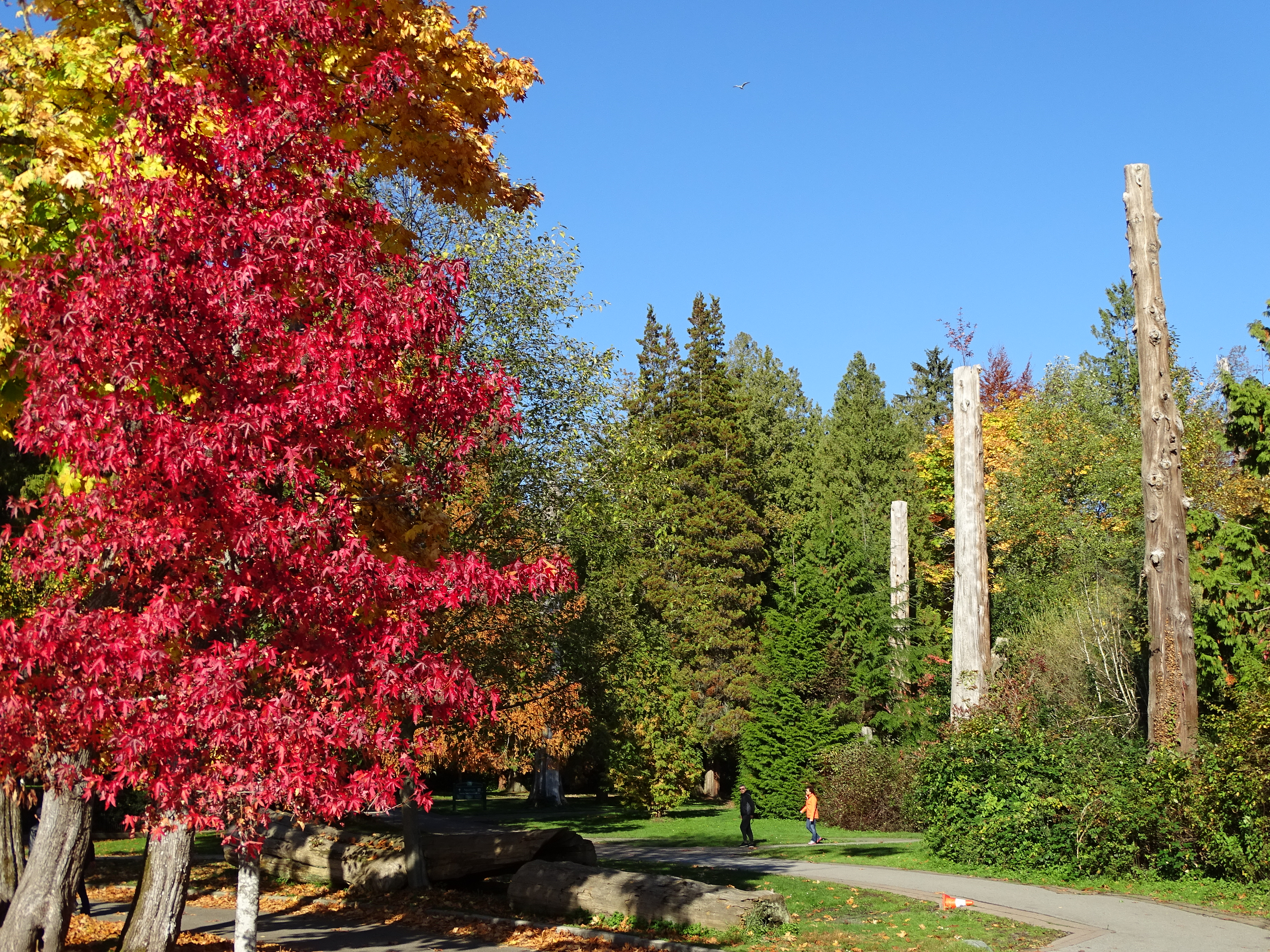 Stanley Park (Inner Harbor) Scene - Vancouver - BC - Canada - 06